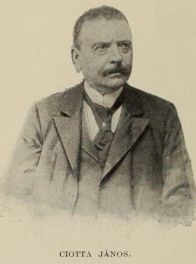 Portrait of Ciotta János